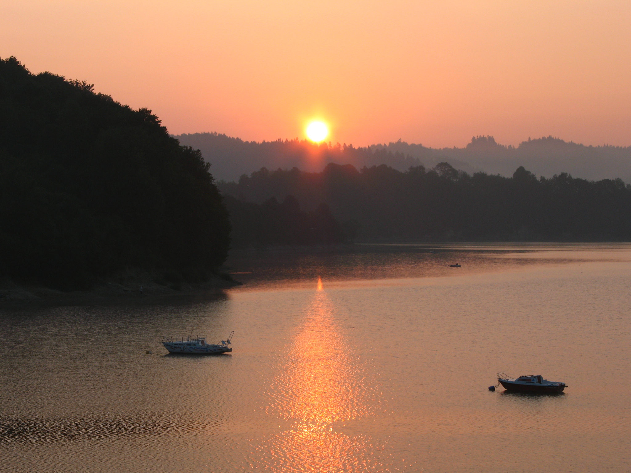 Wołkowyja, Subcarpathian Voivodeship, Poland - sunrise above the Lake Solina